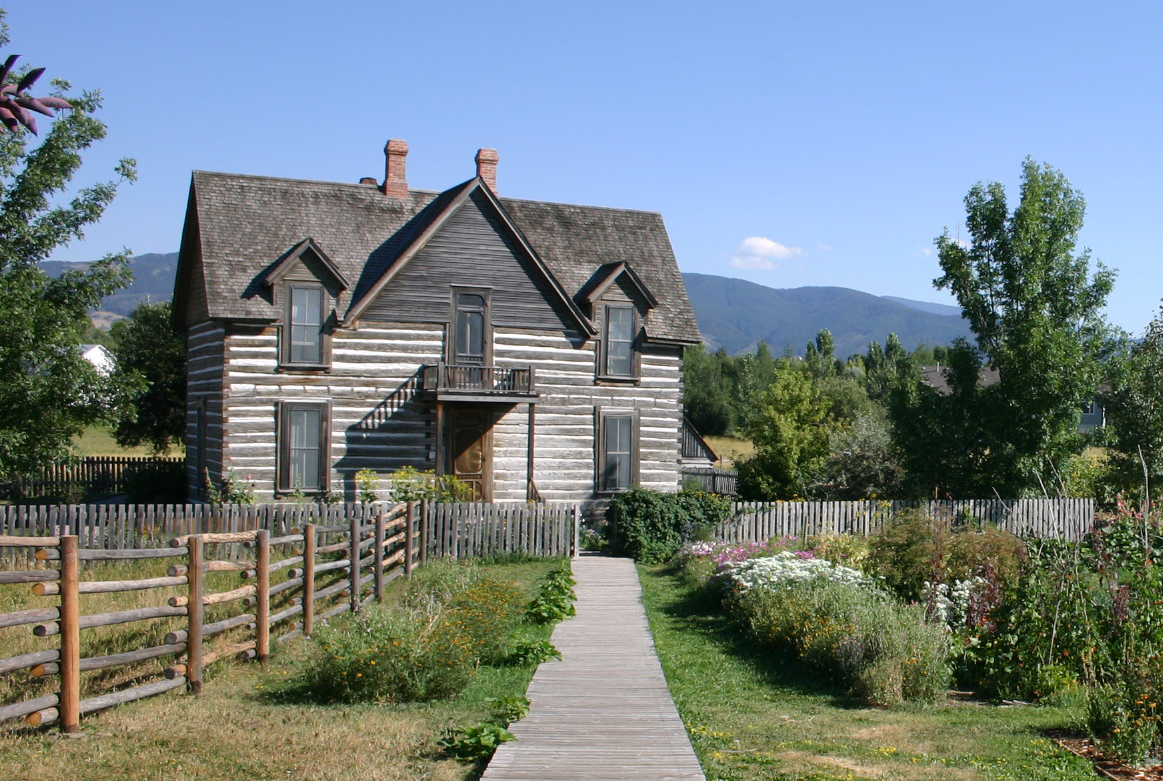 Tinsley House, a historic house museum at Museum of the Rockies, Bozeman, Montana, USA